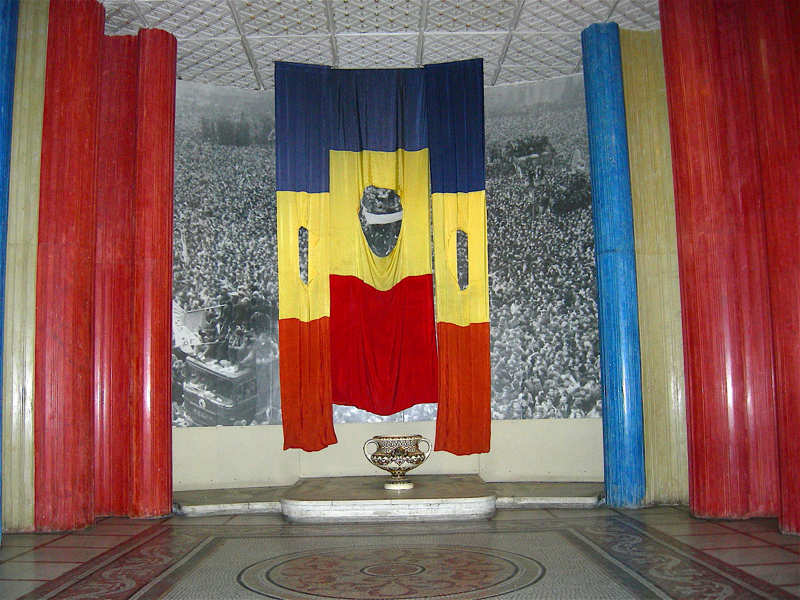 "Empty" Romanian flags (with the Communist coat of arms cut out), from the Romanian Revolution of 1989